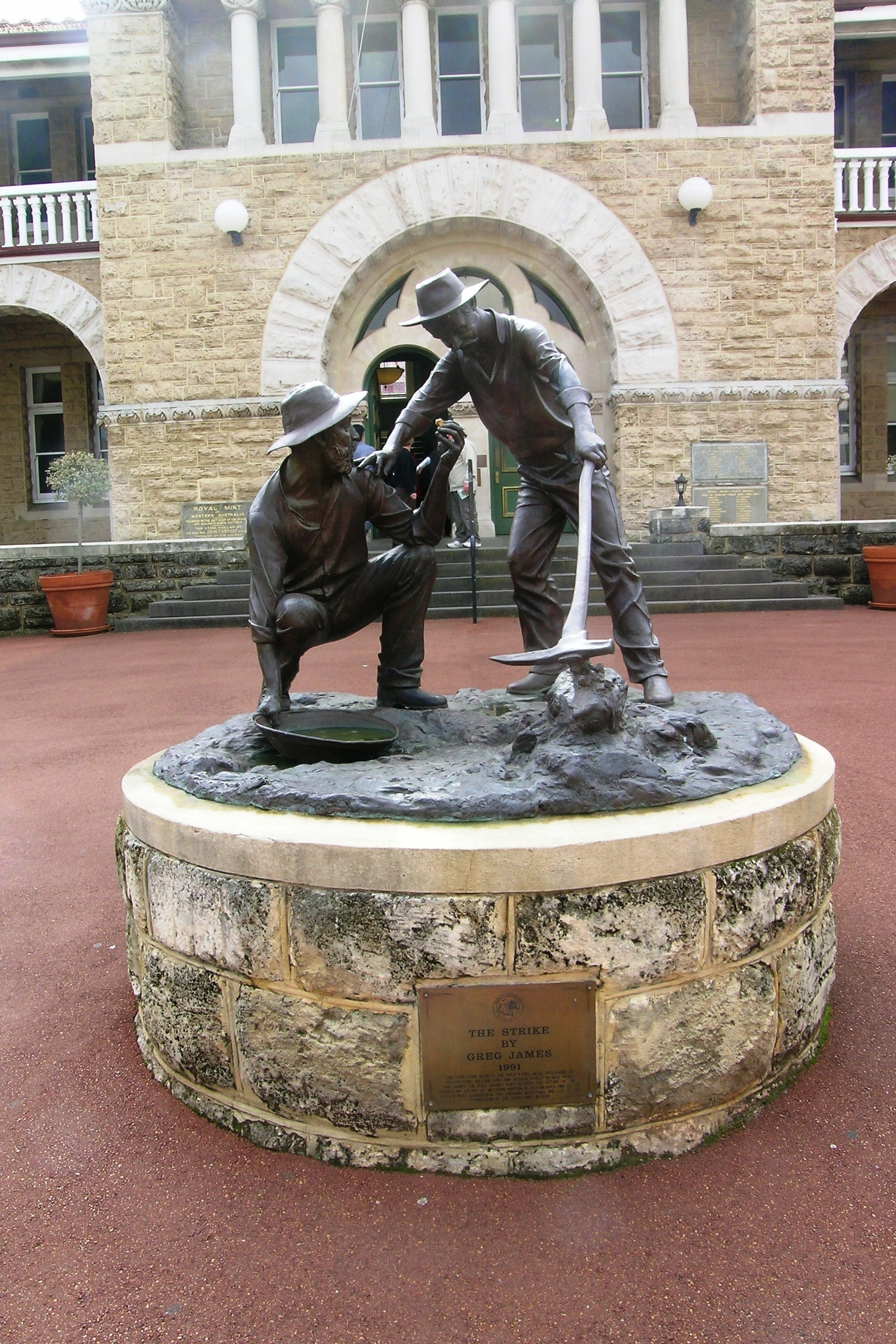 Statue in front of Perth Mint